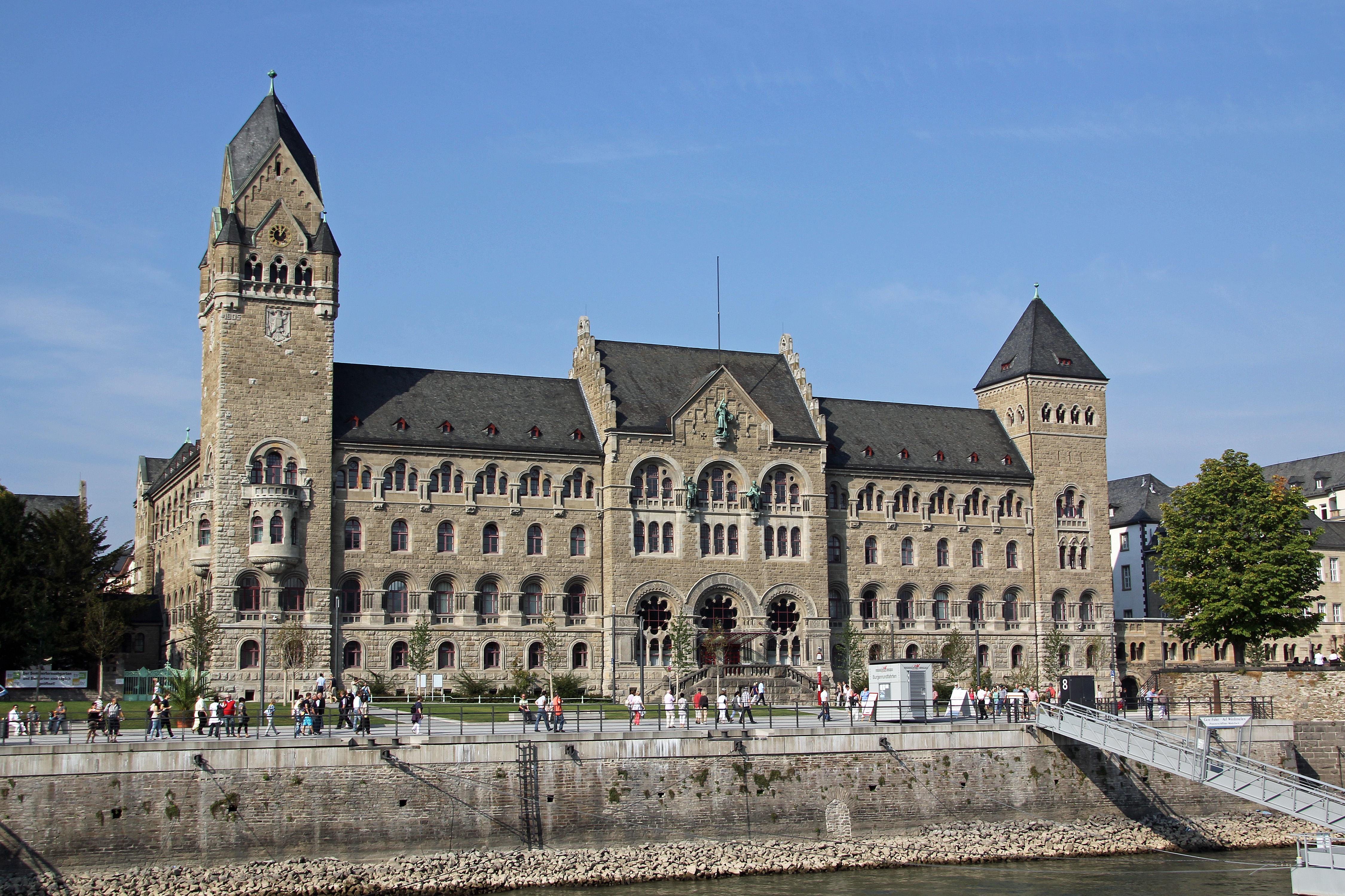 Rhine park in Koblenz